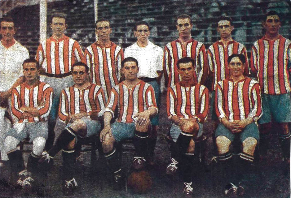 The River Plate team that won its first Primera División title.